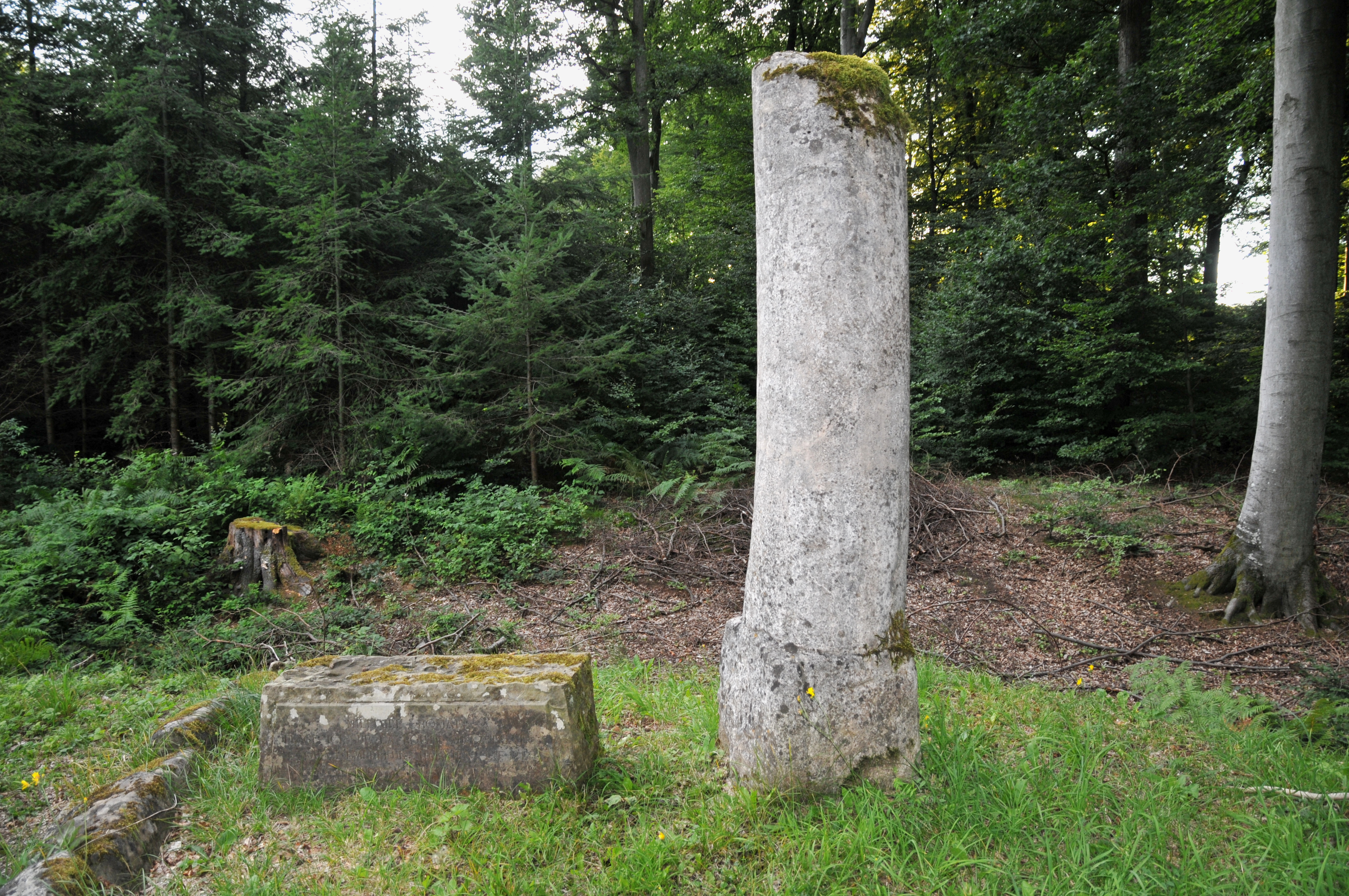 Miliarium near Dalheim